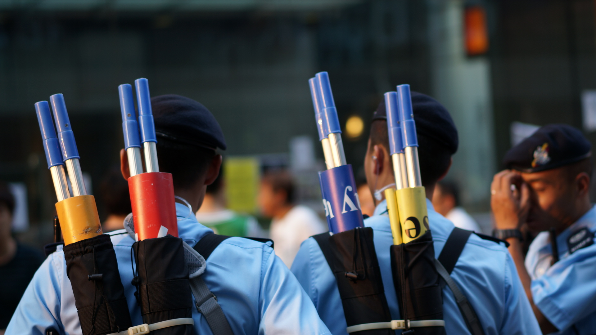 「佔中」運動 2014 Hong Kong protests: October 5